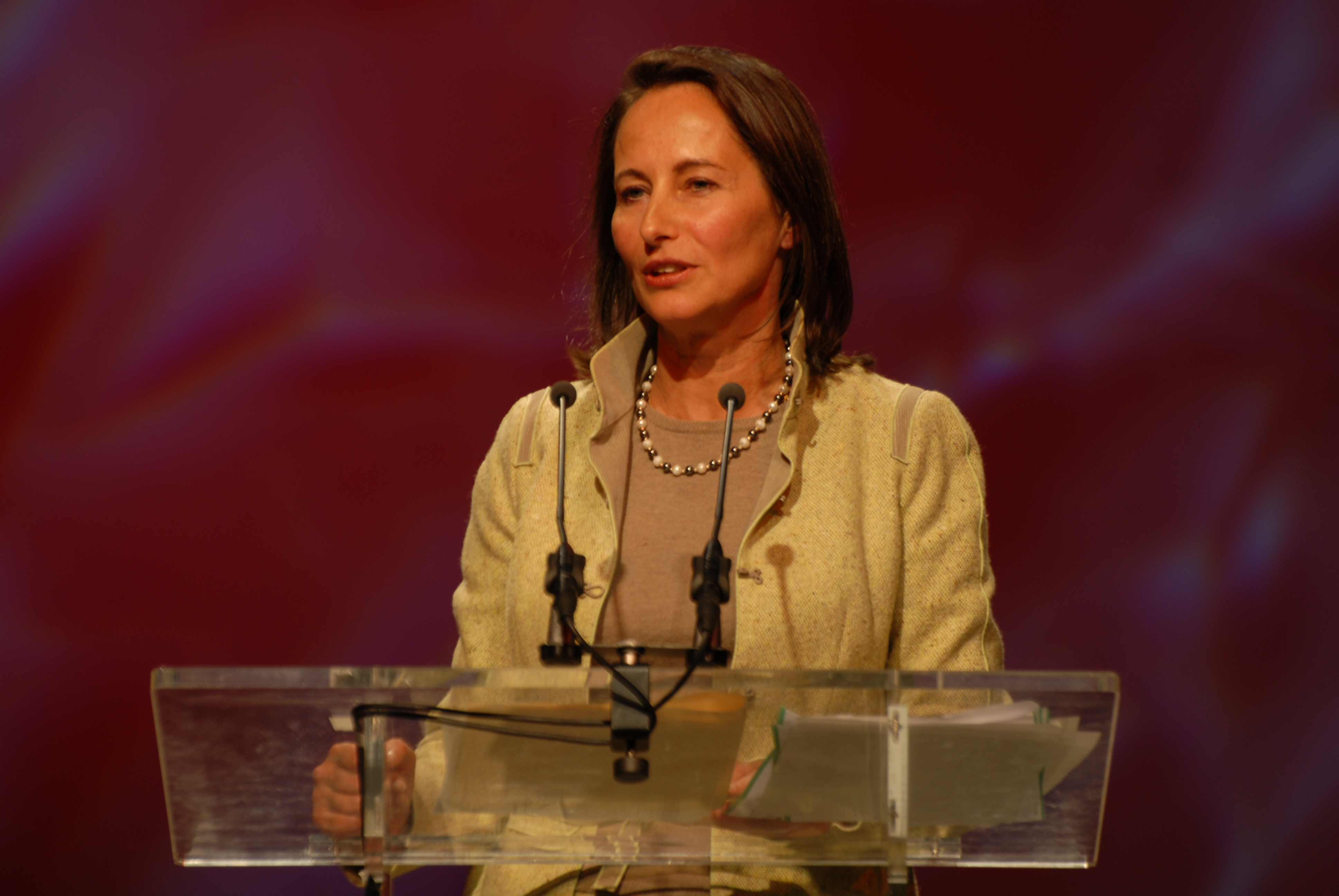 French politician and finalist at the French presidential election (2007) Ségolène Royal supporting Pierre Cohen's candidacy for the French town elections in Toulouse, 2008.